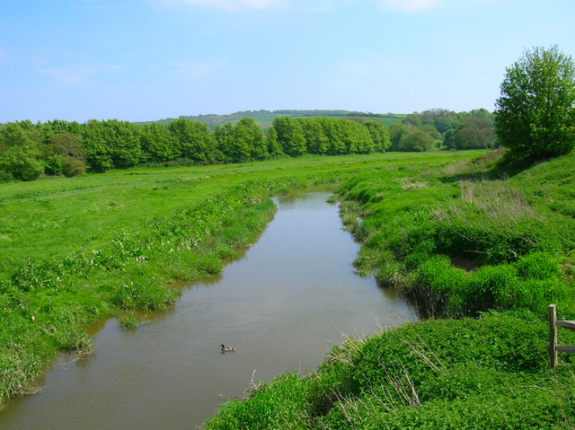 Cuckmere River, Alfriston. Taken from Whites Bridge, the church is to the right out of the picture.